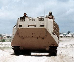 1st Platoon, A Company, 1st Assault Amphibian Battalion of 3rd Assault Amphibian Battalion attached to 15th MEU near Mogadishu International Airport, Somalia in December 1992.